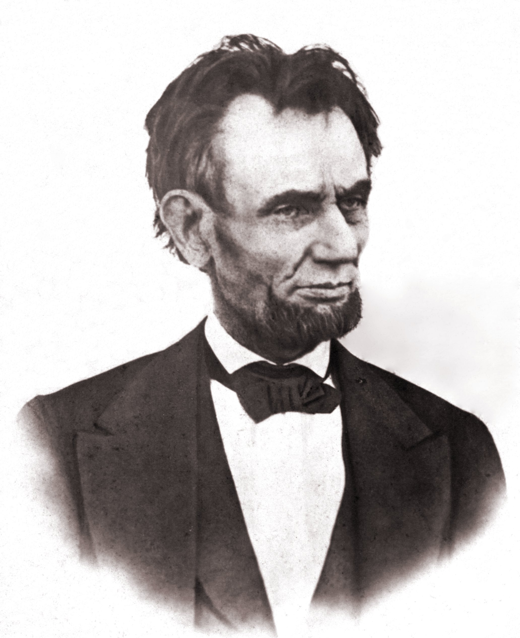 The last known photograph of President Lincoln alive. Taken on the balcony at the White House, March 6, 1865. 1 photographic print : albumen ; photo ca. 11 × 14 in. on mount 20 × 24 in.